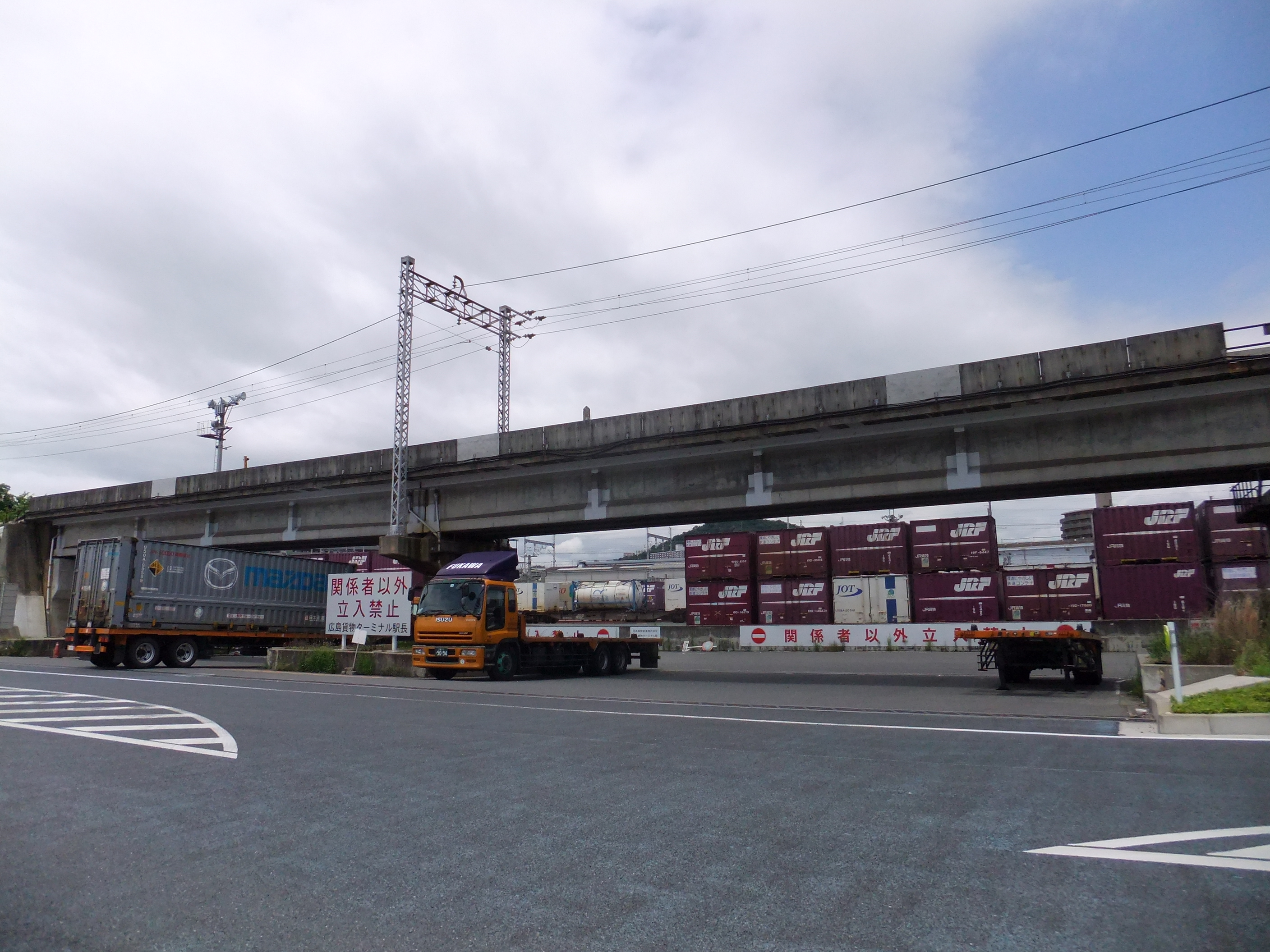 Hiroshima Freight Terminal